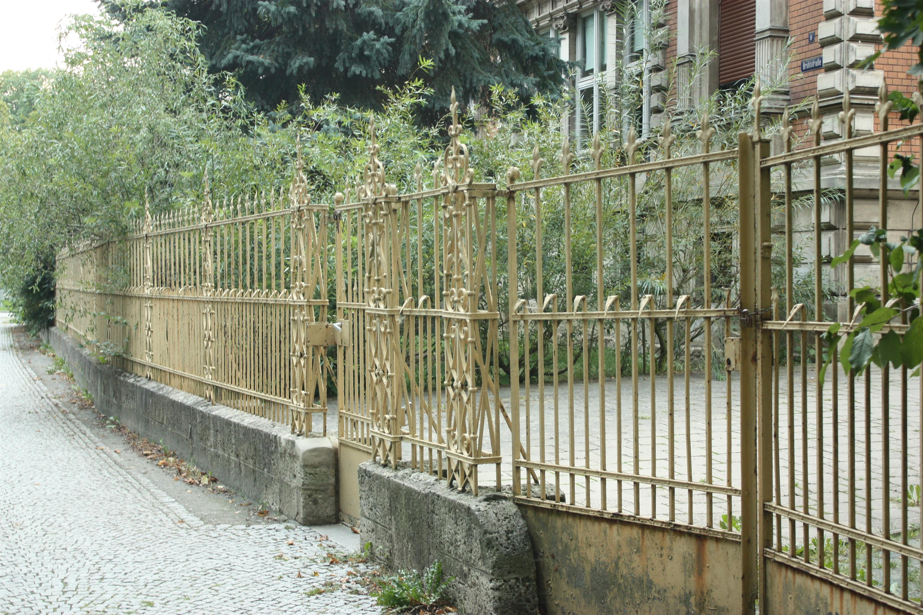 This is a photograph of an architectural monument.It is on the list of cultural monuments of Quedlinburg Brühlstraße 09 (Quedlinburg)